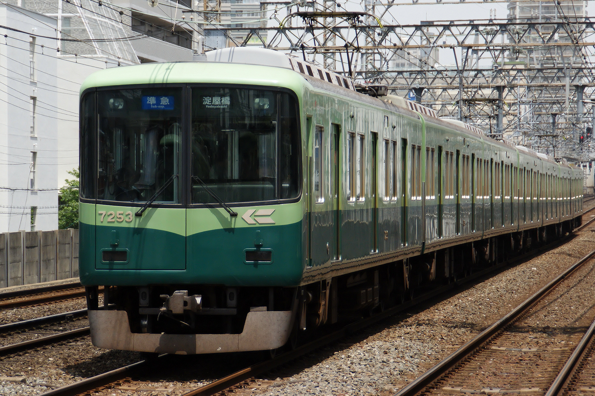 Keihan 7200 series 7-car EMU set 7203 in original livery near Doi Station in Osaka, Japan